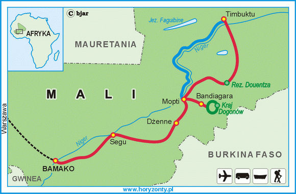 Map of the Dogon's Land